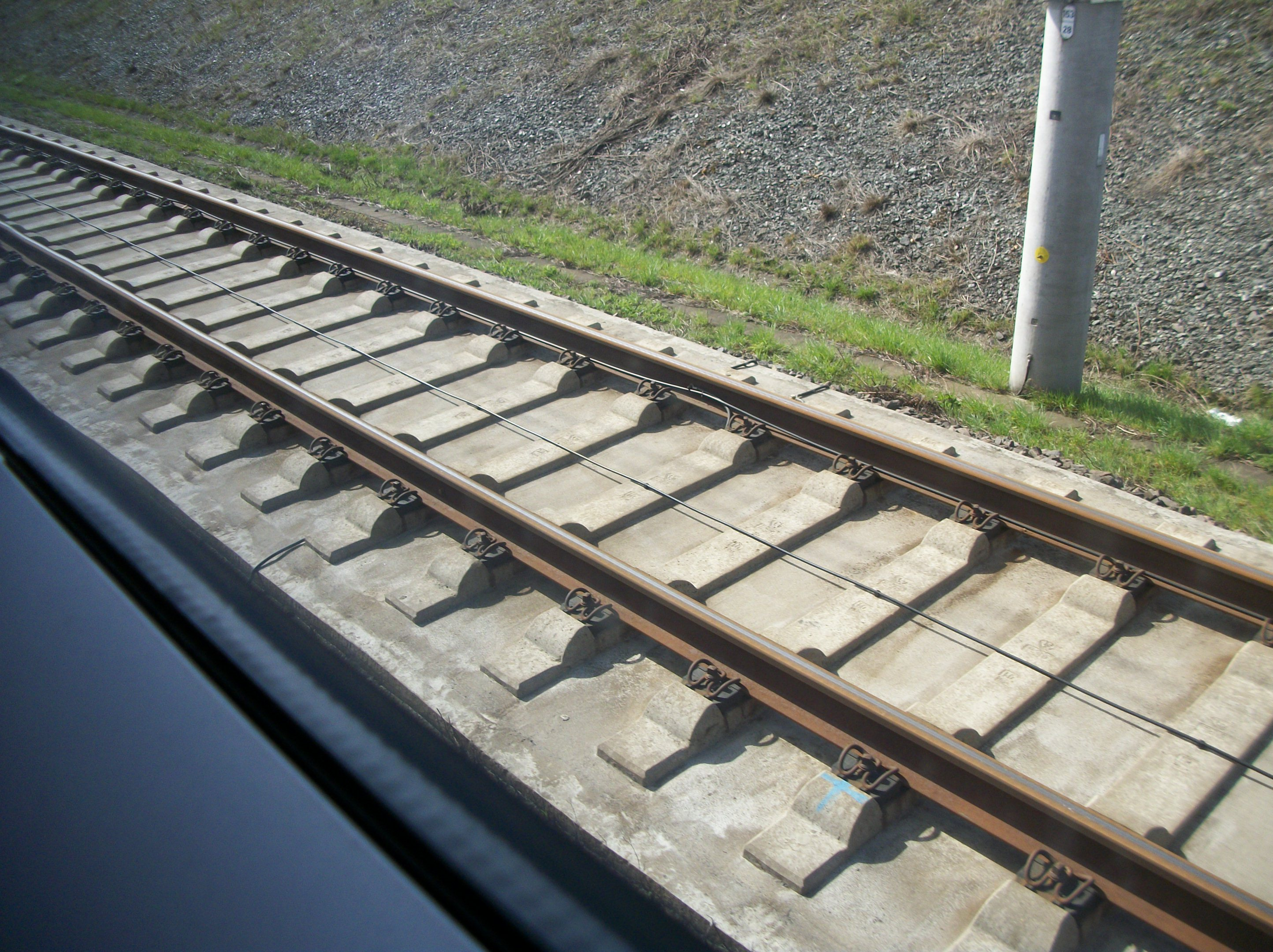 ICE Train Track, Germany